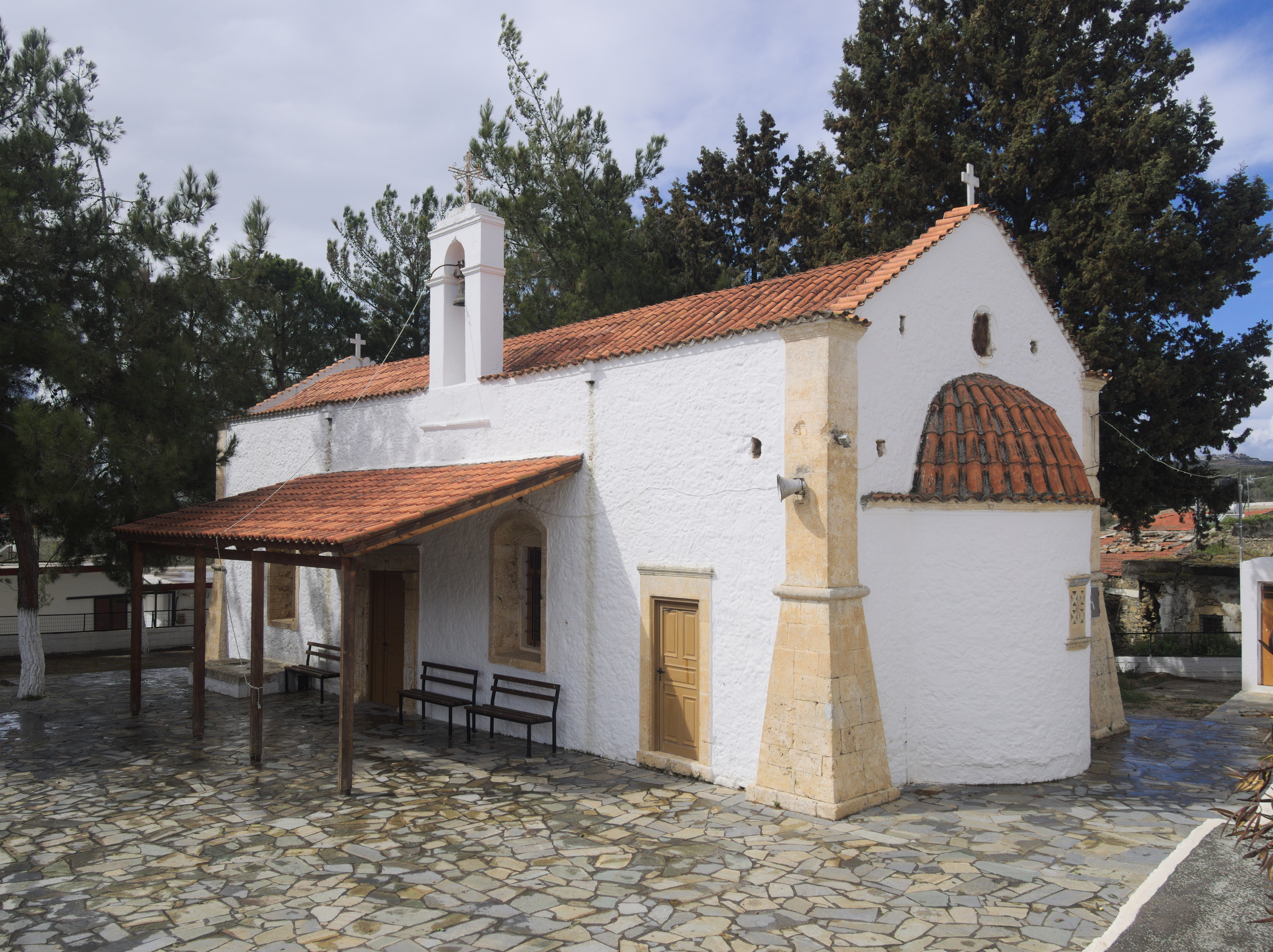 The church of Saint Titus at Asimi, Crete.